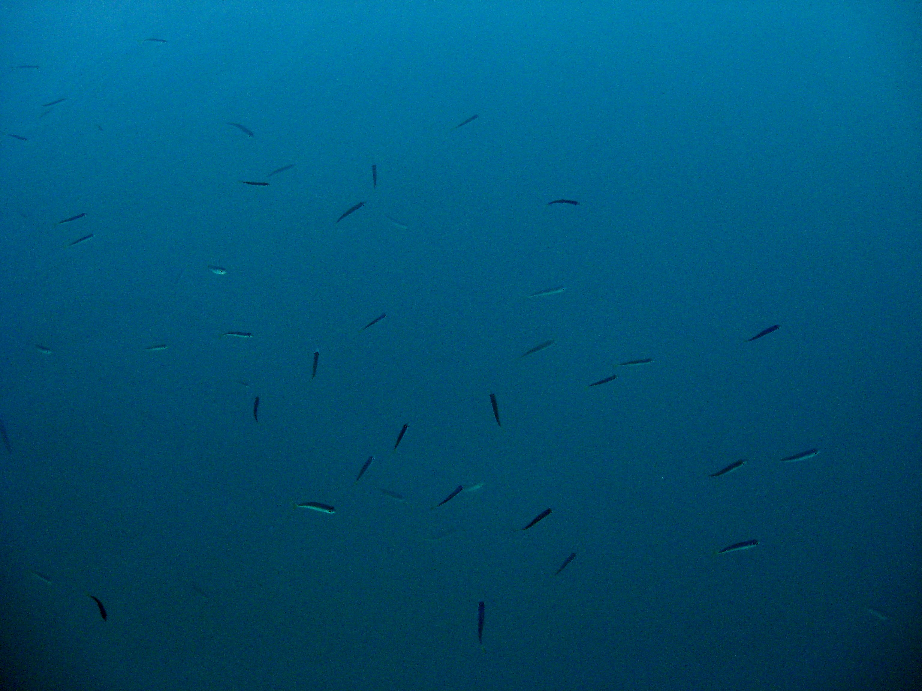 Small Mediterranean fish near Turkey. Shadows added using Picasa.